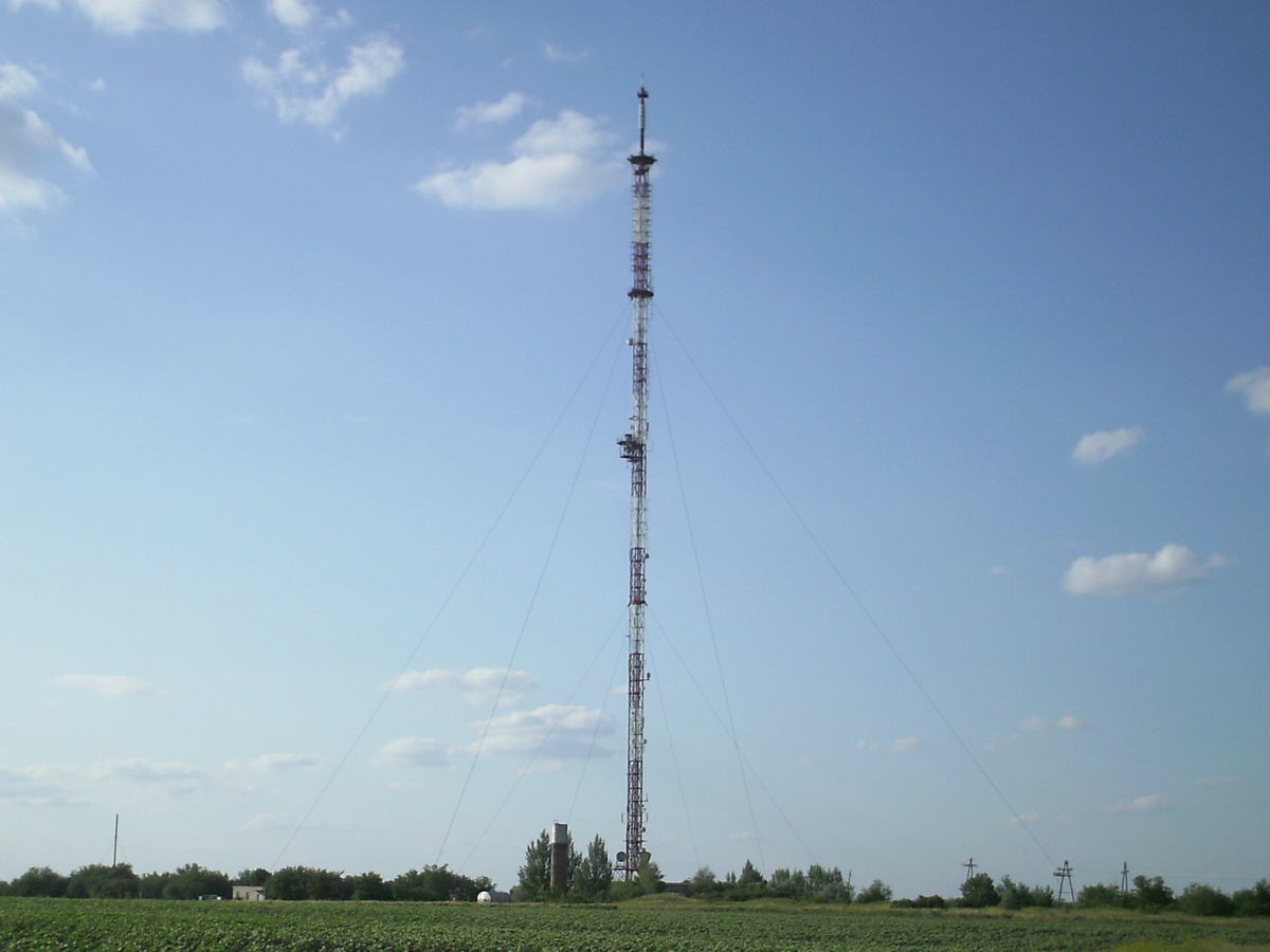 Communications tower on Karachun mountain near Sloviansk (Donetsk region, Ukraine).